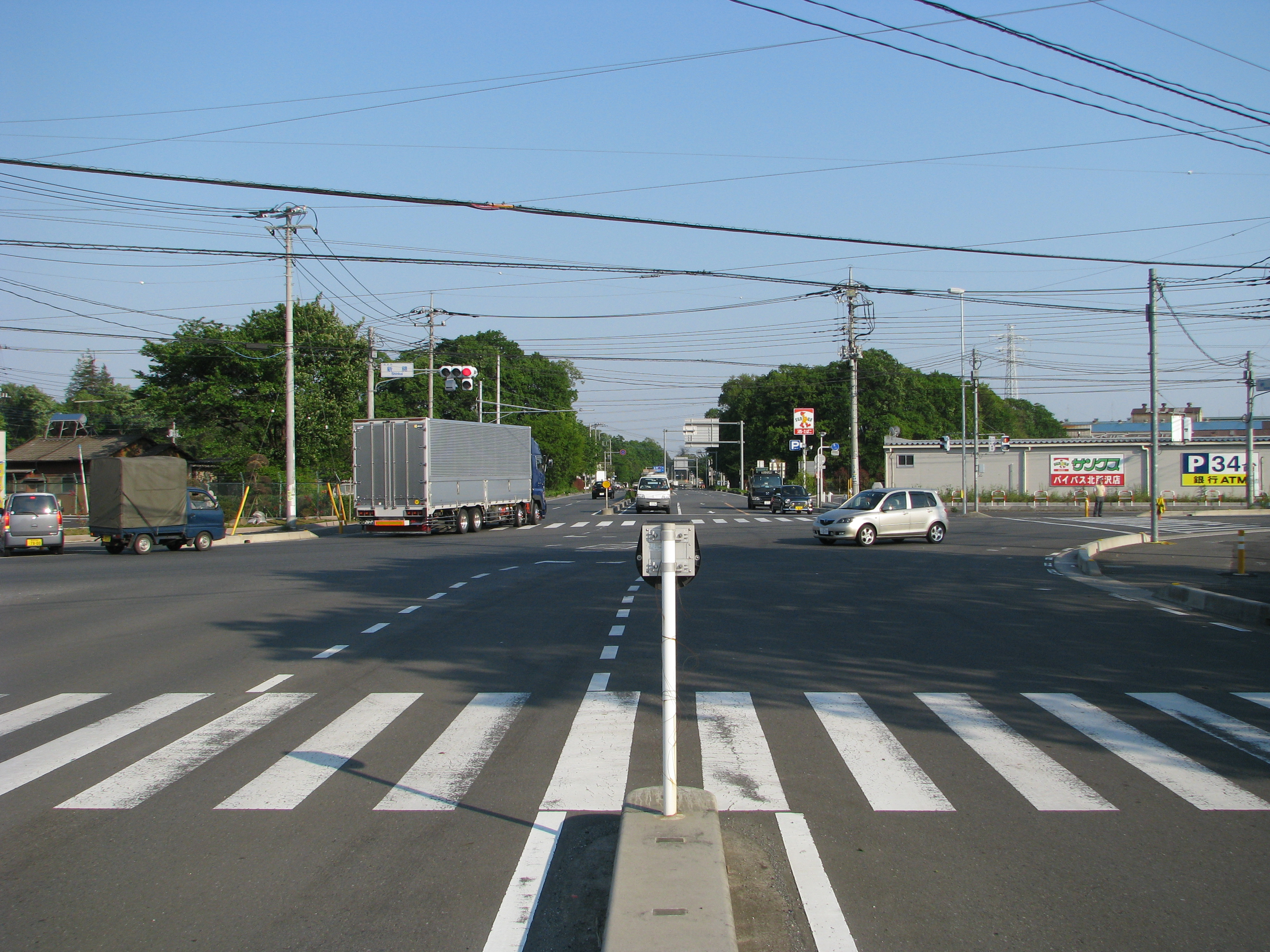 The Saitama Prefectural Road Route 126 at Shinkai Intersection in Shimotomi, Tokorozawa City